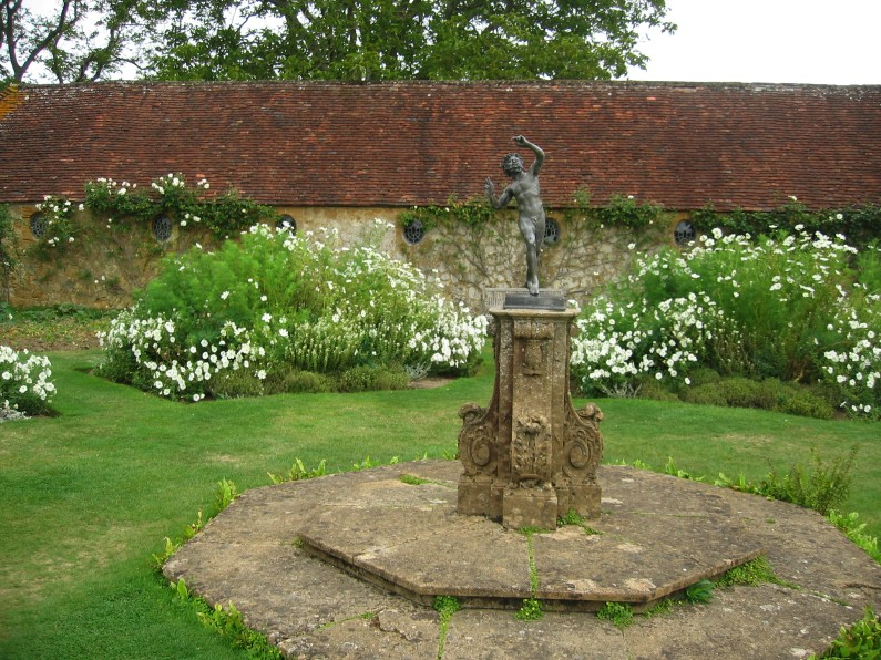 White garden at Barrington Court